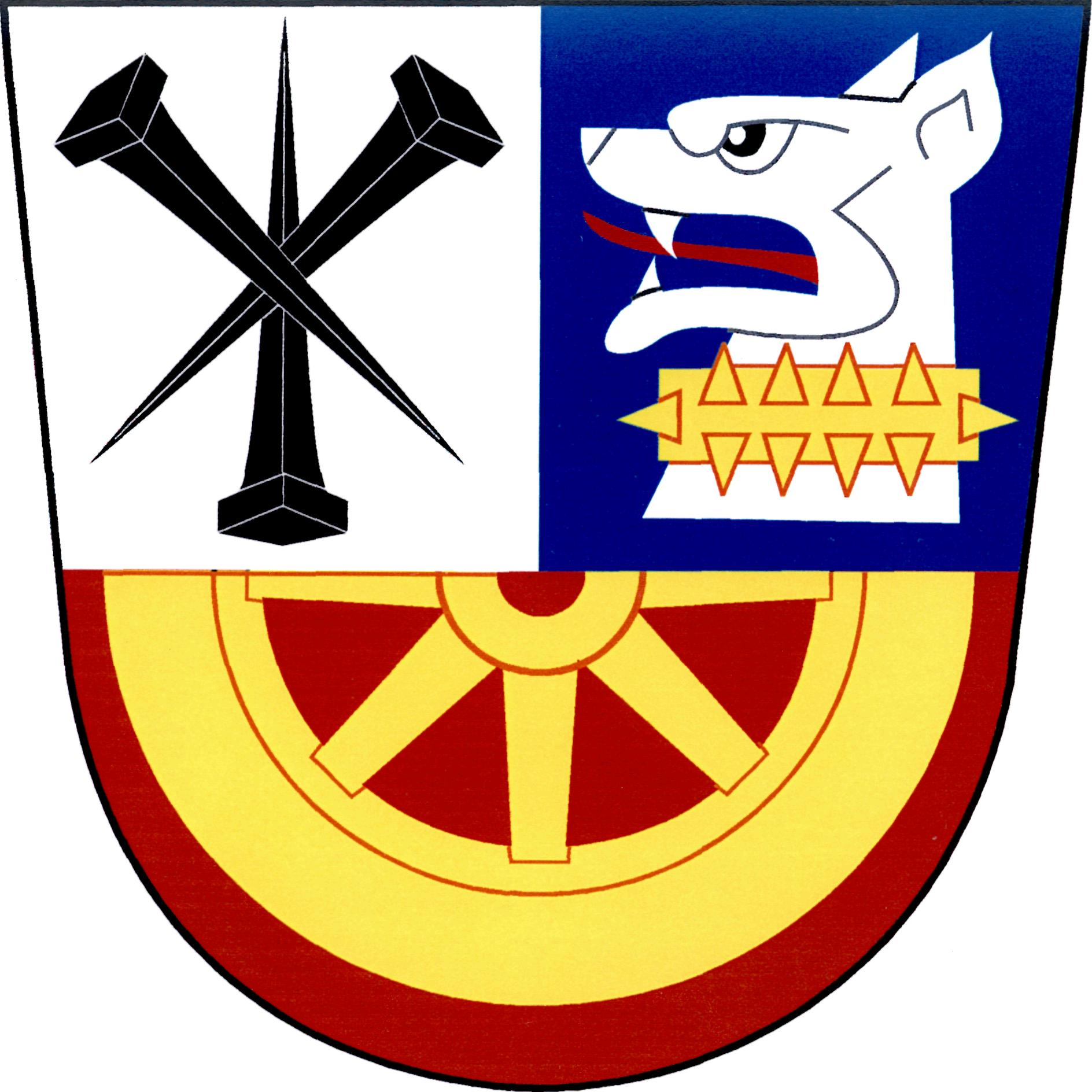 Municipal coat of arms of Bernardov village, Kutná Hora District, Czech Republic.